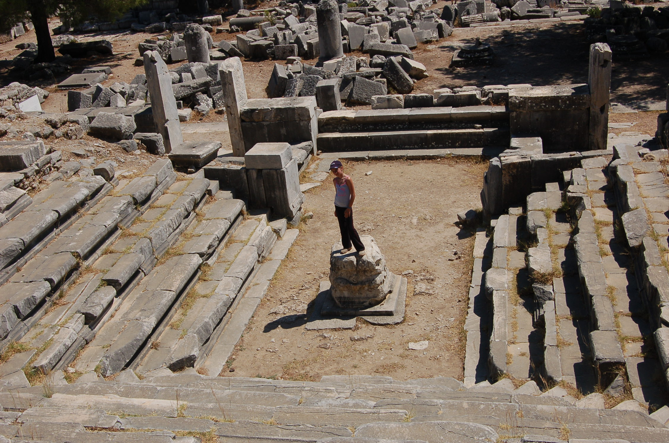 The Bouleuterion at Priene